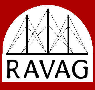 Signet of Radio-Verkehrs-AG 1935